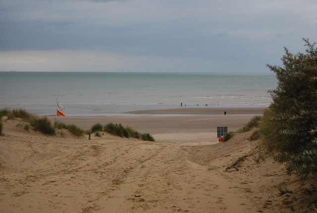 The beach at Camber from a footpath